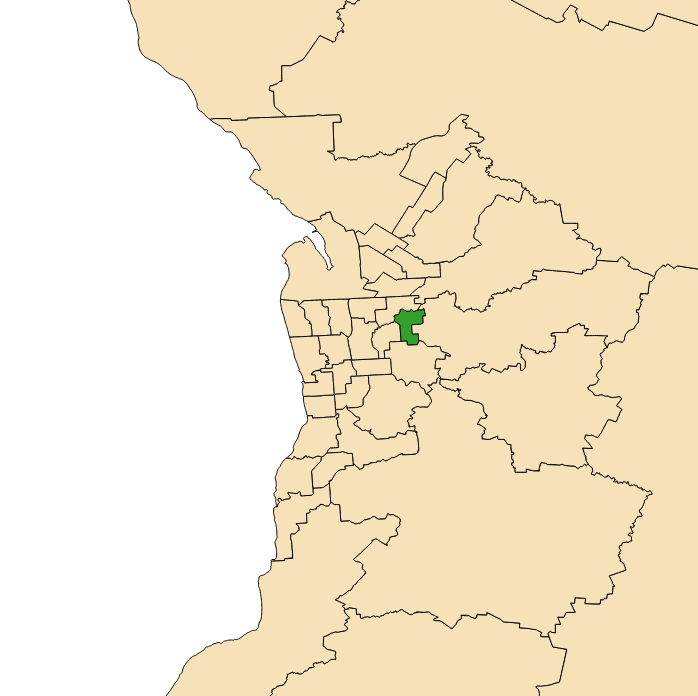 Electoral district 2018 boundaries shown in green